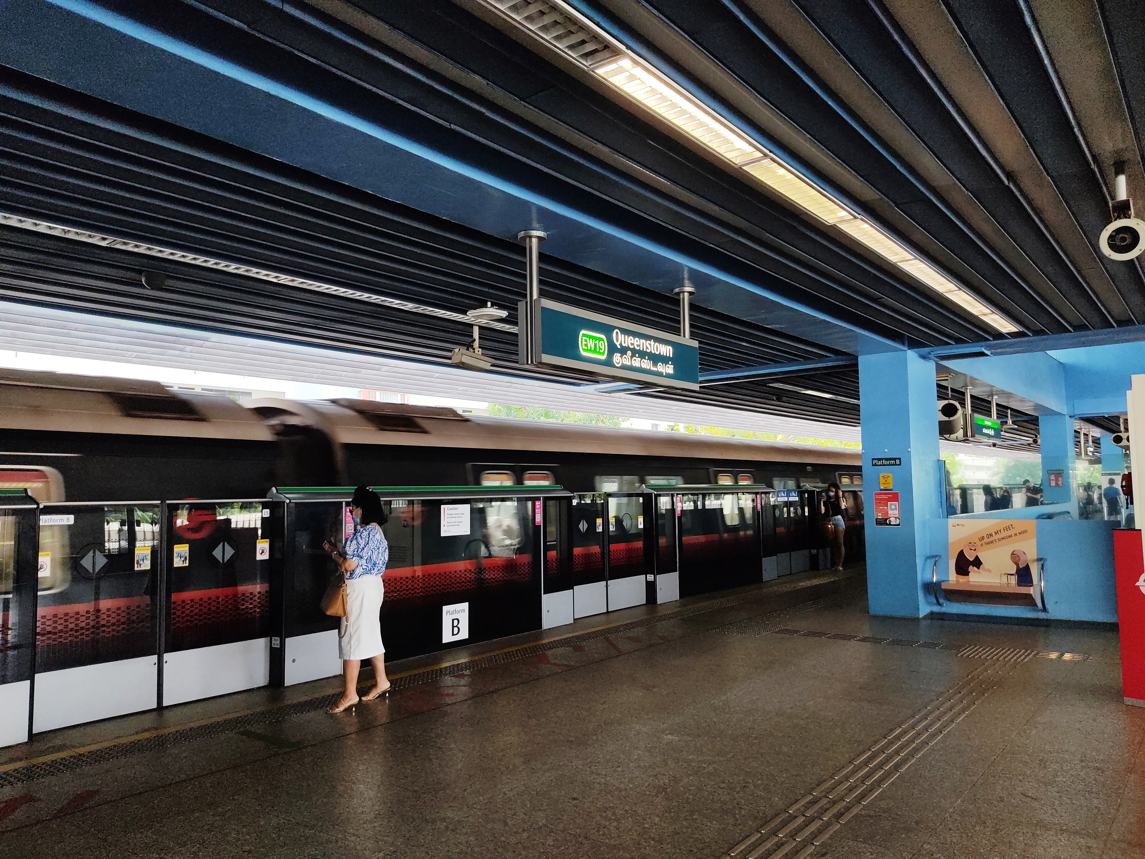 EW19 Queenstown